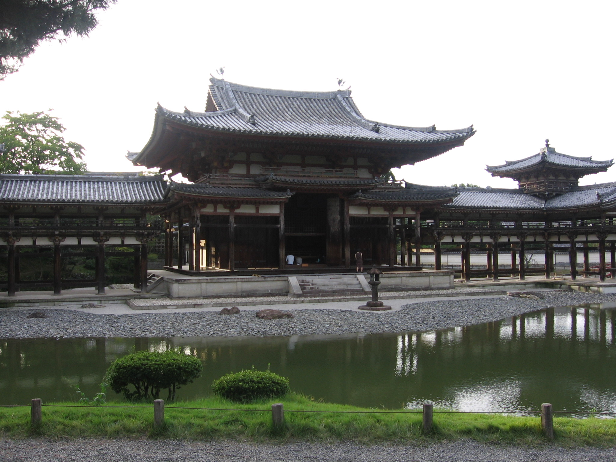 Picture made by Peter 111 06:45, 4 December 2005 (UTC) at Byodoin temple in october 2005